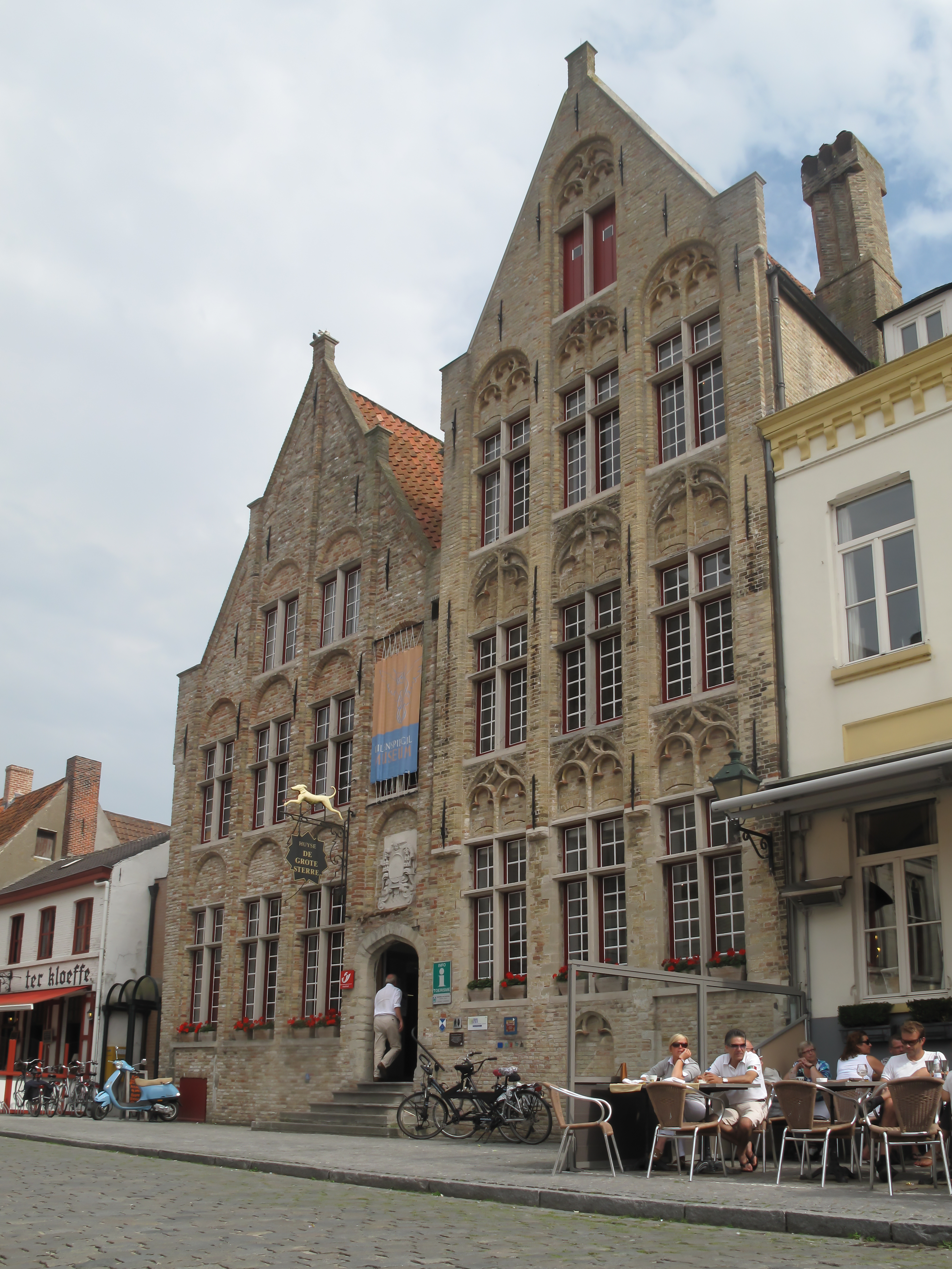 Damme, monumentale houses Huyse de Grote Sterre RM78680